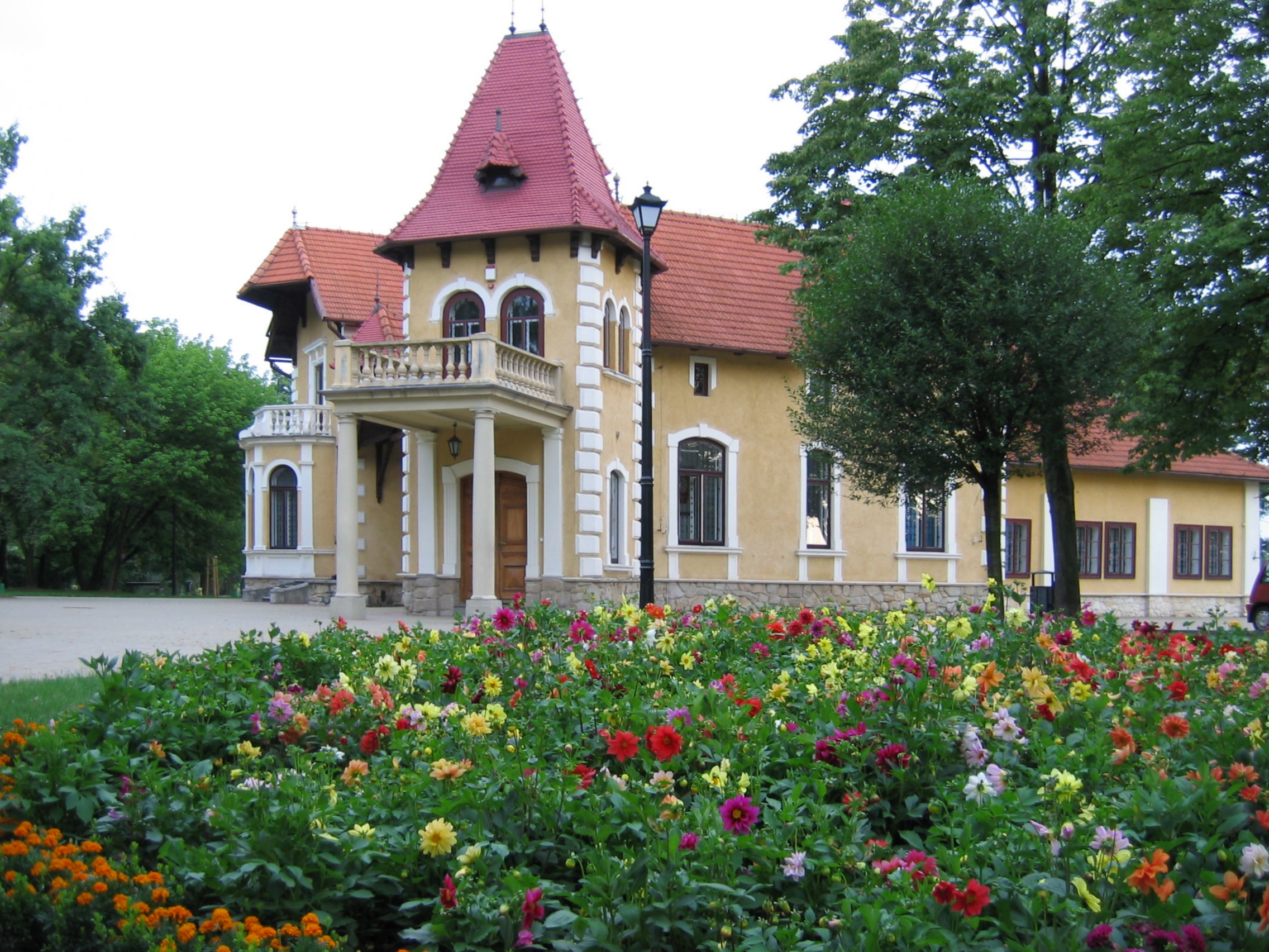 Oborskis' Mansion in Mielec, Poland